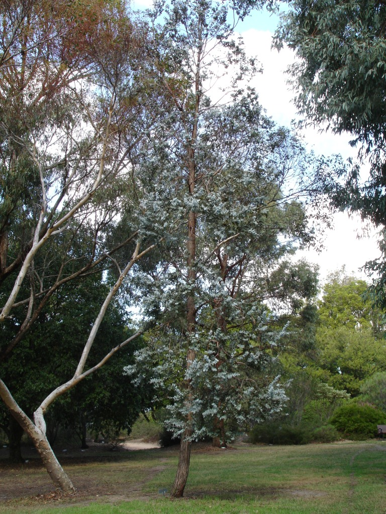 Photographed at Maranoa Gardens, Melbourne, Victoria, Australia